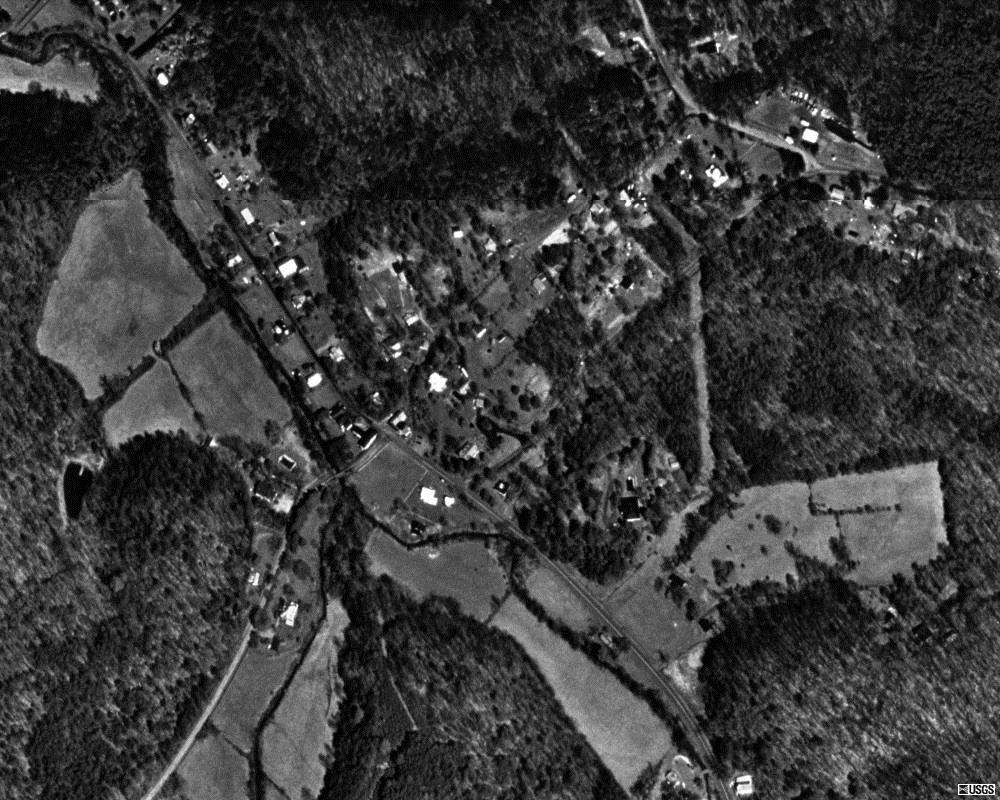 Aerial Photo of the village of Batesville, Virginia.